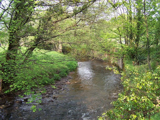 River/Afon Honddu, Pandy. Pandy is an important refuelling stop for northbound Offa's Dyke walkers. There are no facilities for over 17 miles until Hay on Wye is reached